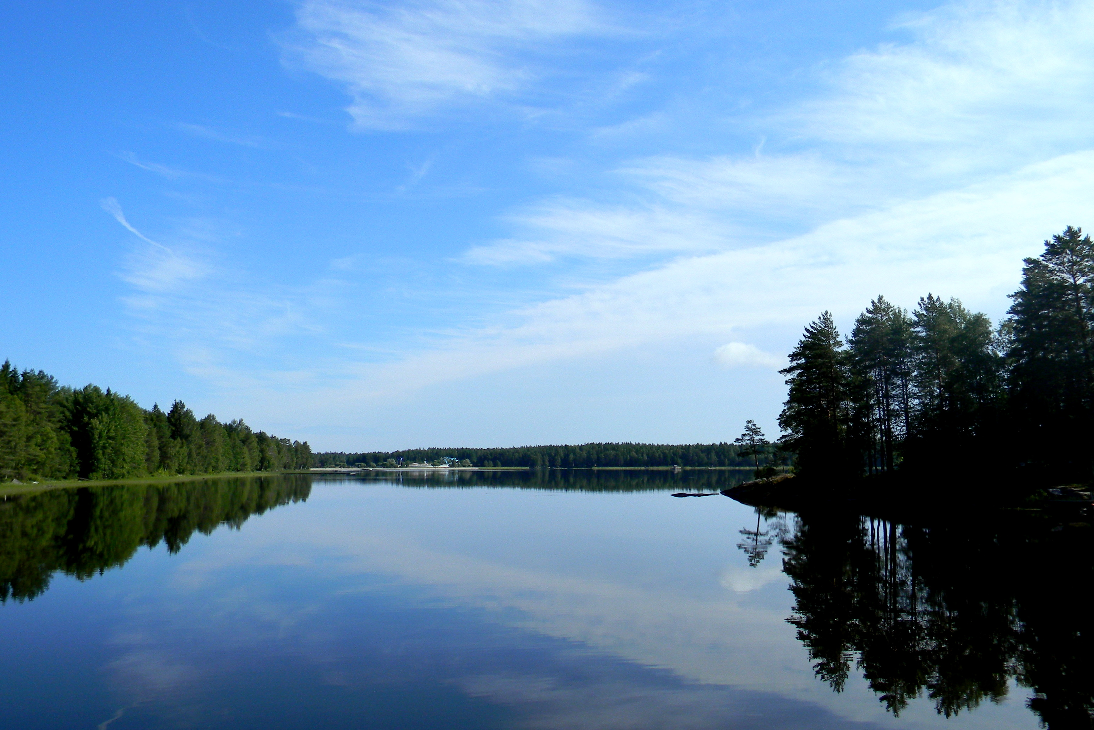 The Nydalasjön lake, located about 4 km outside Umeå in Sweden.